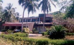 thumb of chitranjali studio. self made